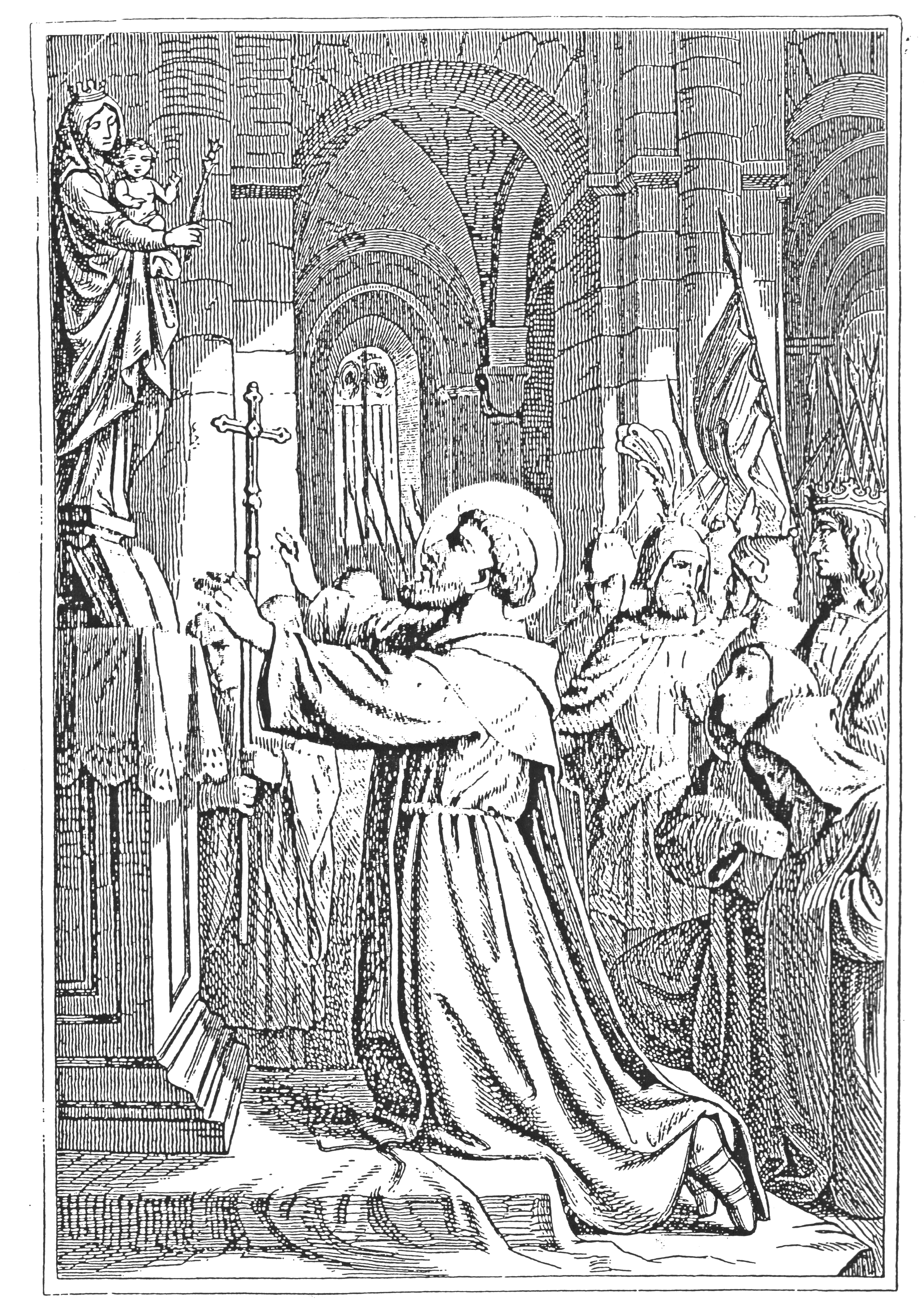 Engraving of Saint Bernard of Clairvaux